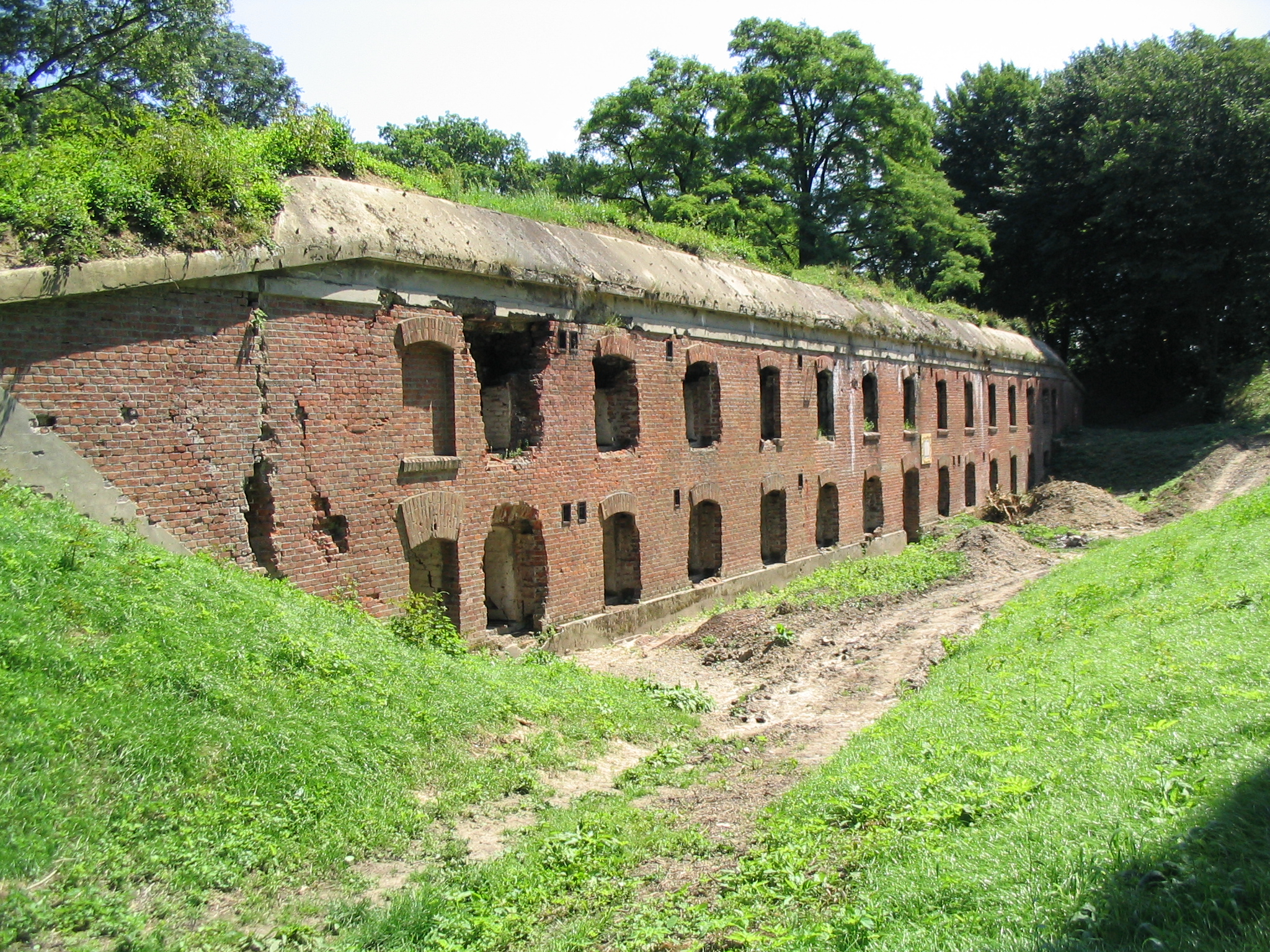 Fort XV "Borek" Author: Goku122